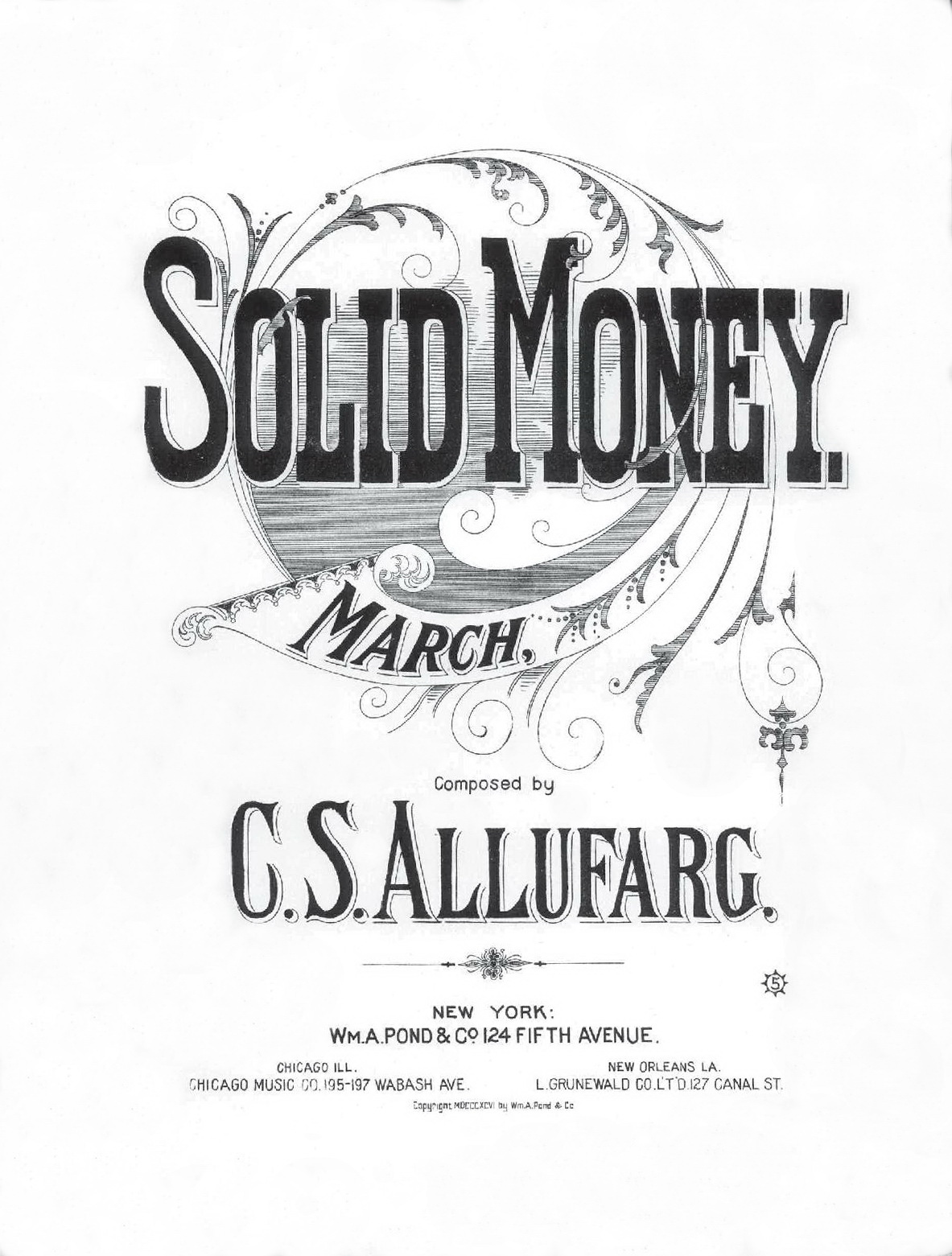 Cover Sheet of the "Solid Money March" by C.S. Allufarg (an ananym of C.S. Grafulla), published by William A. Pond & Company in 1896